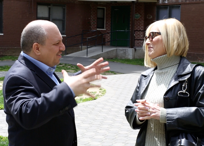 Lorenzo Tartamella and Roslyn Kind in Brooklyn, NY.